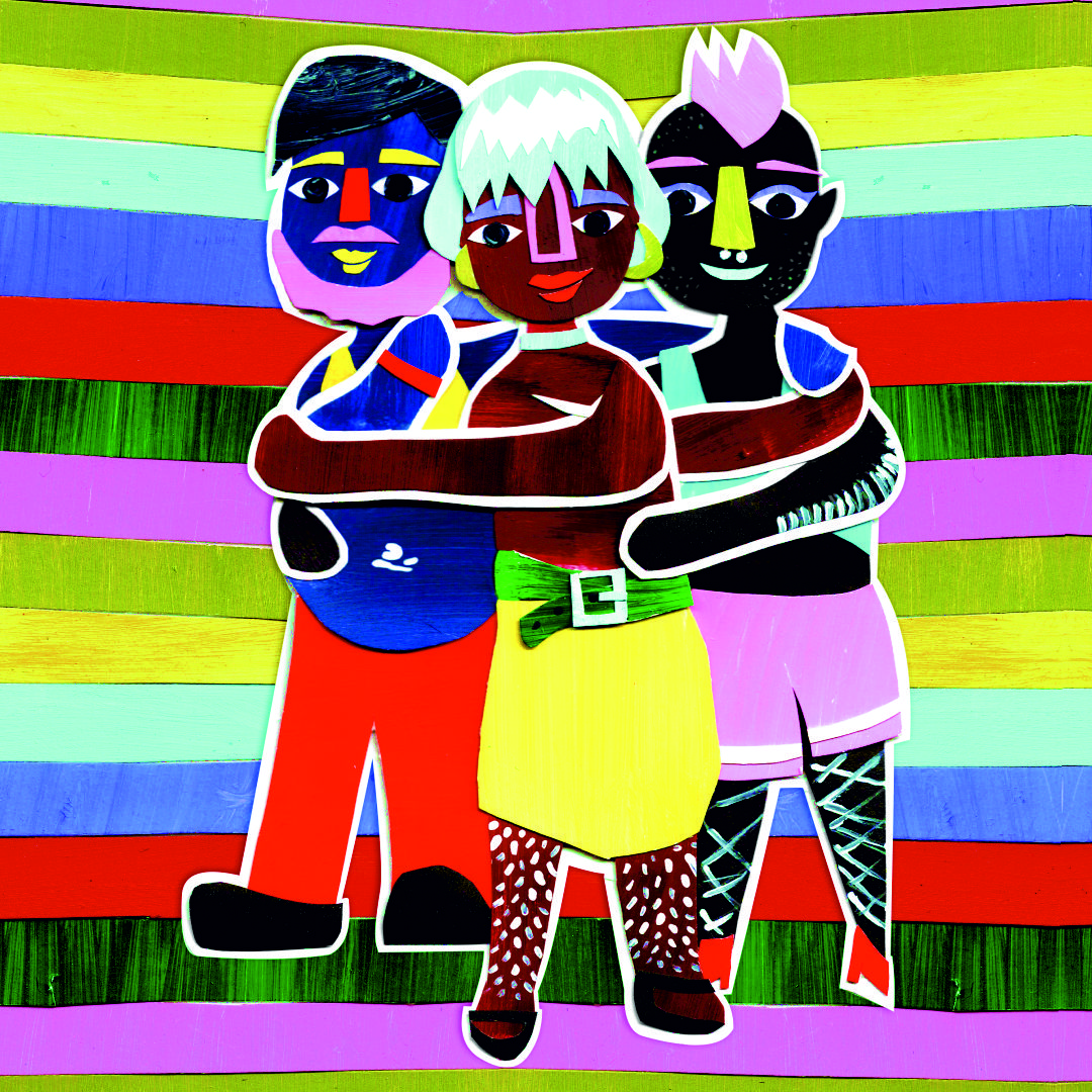 Translated from